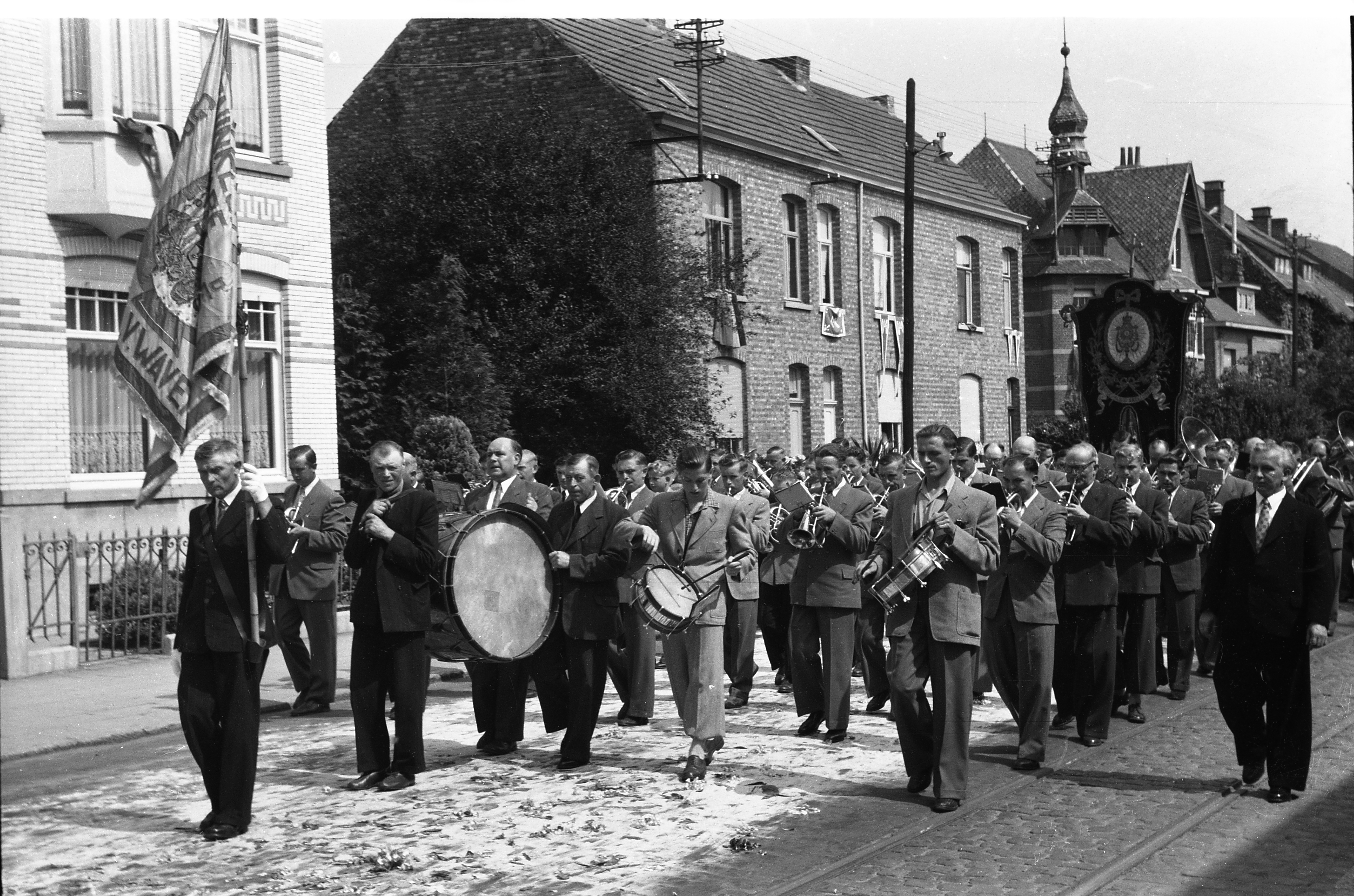 processie OLV waver 1953